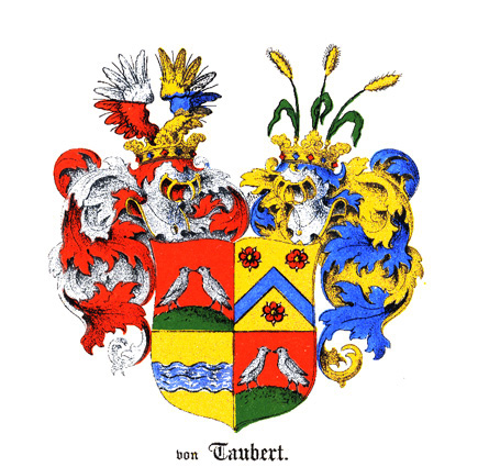 Coat of arms of Taubert family